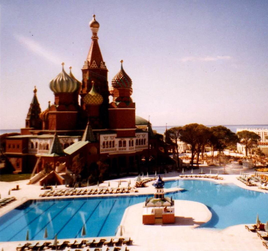 Hotel Resort in Antalya, Turkey copying parts of the Moscow Kremlin